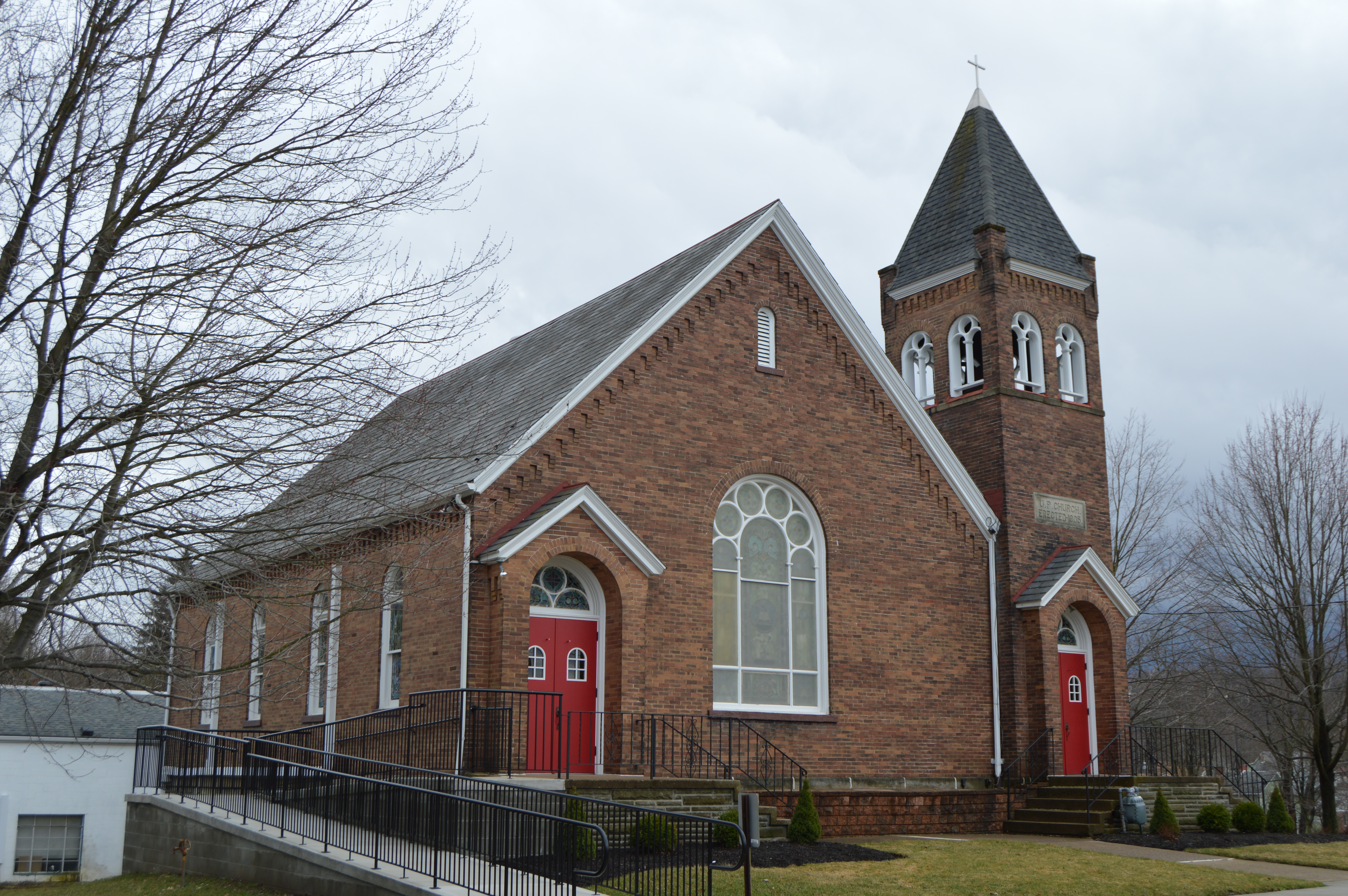 Front and northern of the Valencia Presbyterian Church, located at 80 Sterrett Street in Valencia, Pennsylvania, United States. It was built in 1905.